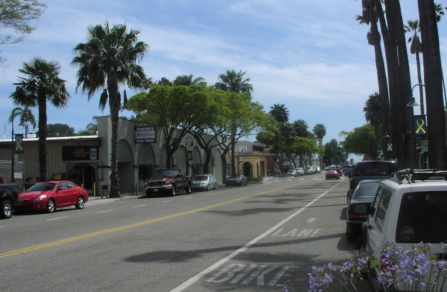 Carpinteria, CA, main street downtown, taken by me 5/28/06